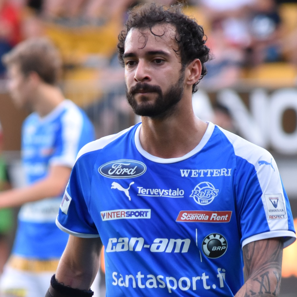 Association football player Agnaldo Pinto de Moraes Júnior (RoPS)